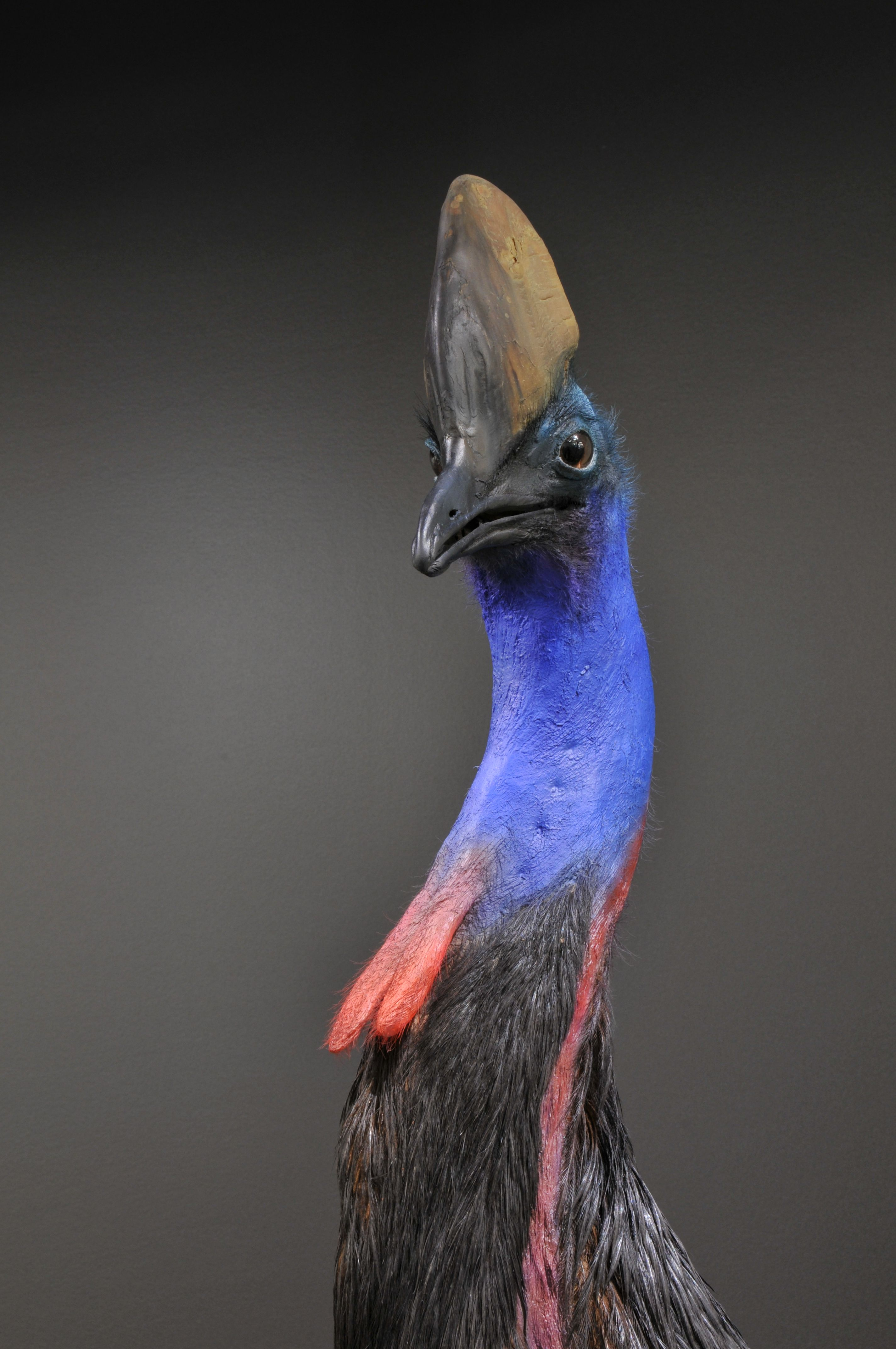 southern cassowary – Location: Museum Wiesbaden